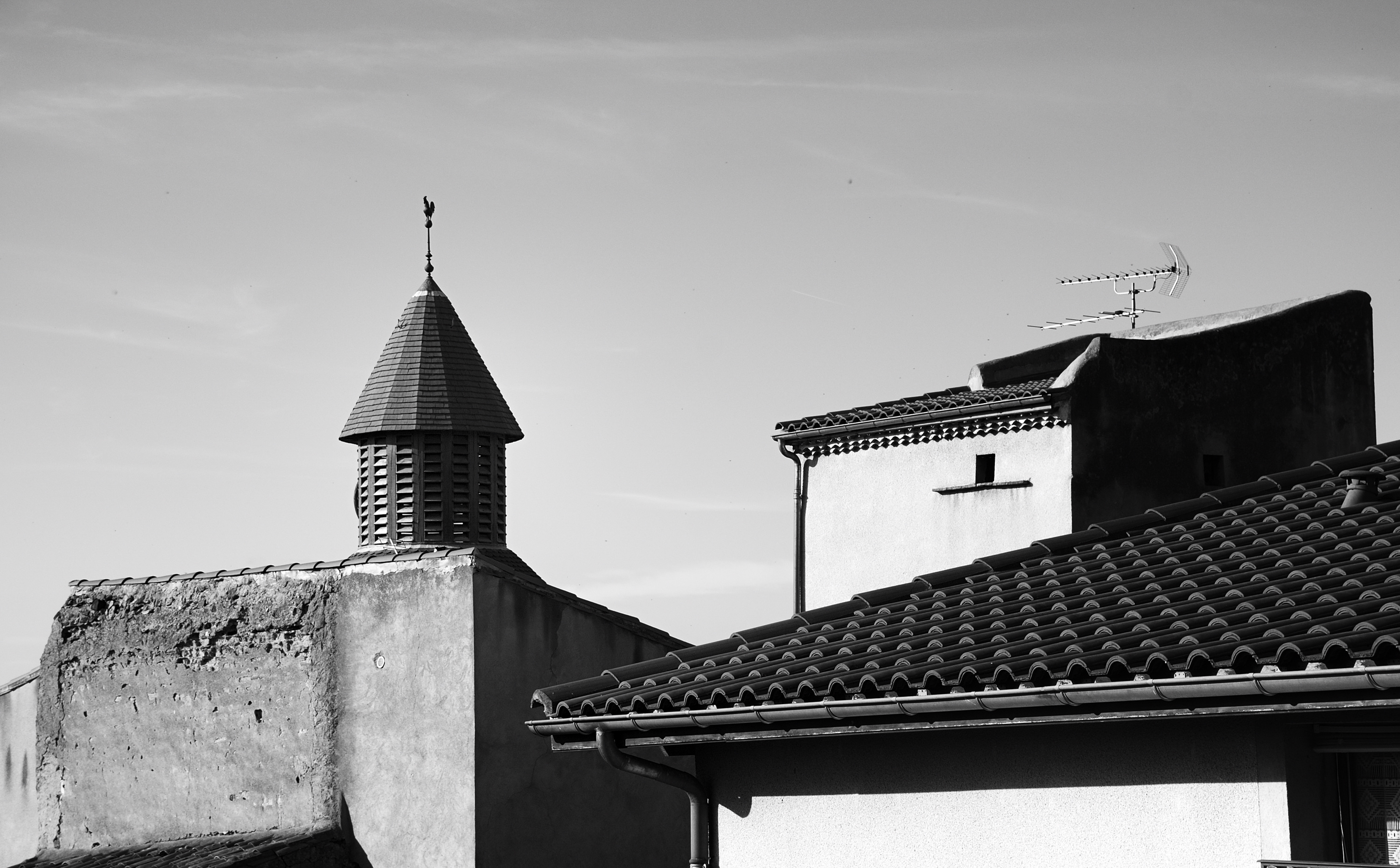 Dallet: clock tower (Puy-de-Dôme, France).